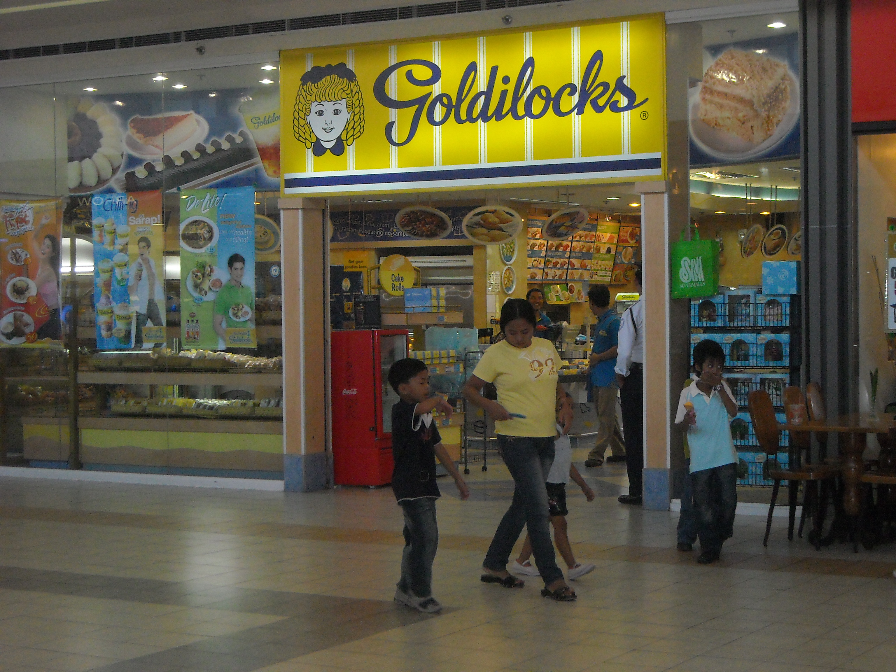 Front of a Goldilocks branch at a shopping center.